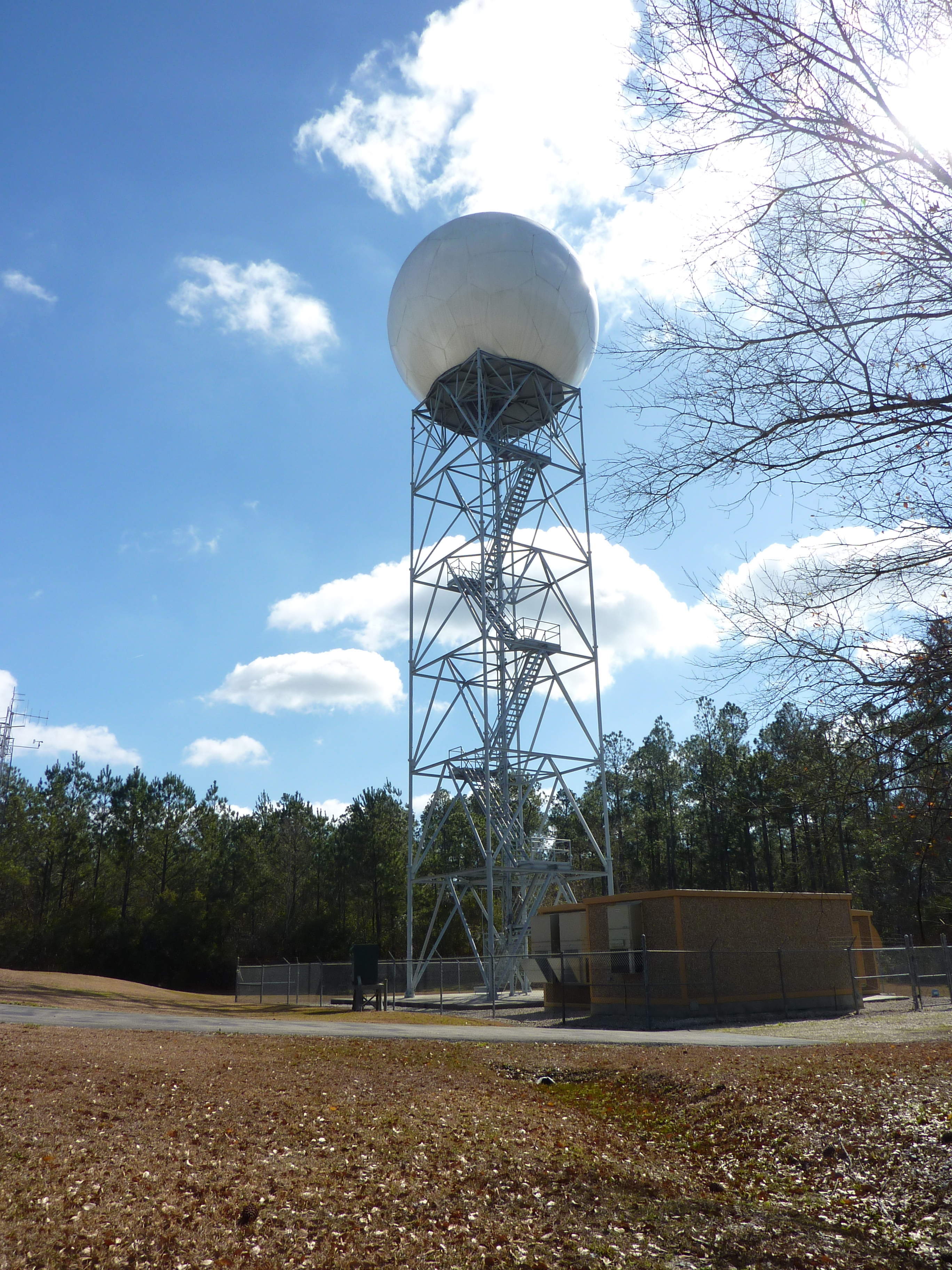 NWS Forecasting Office New Orleans/Baton Rouge NEXRAD weather radar at the Slidell Airport, LA